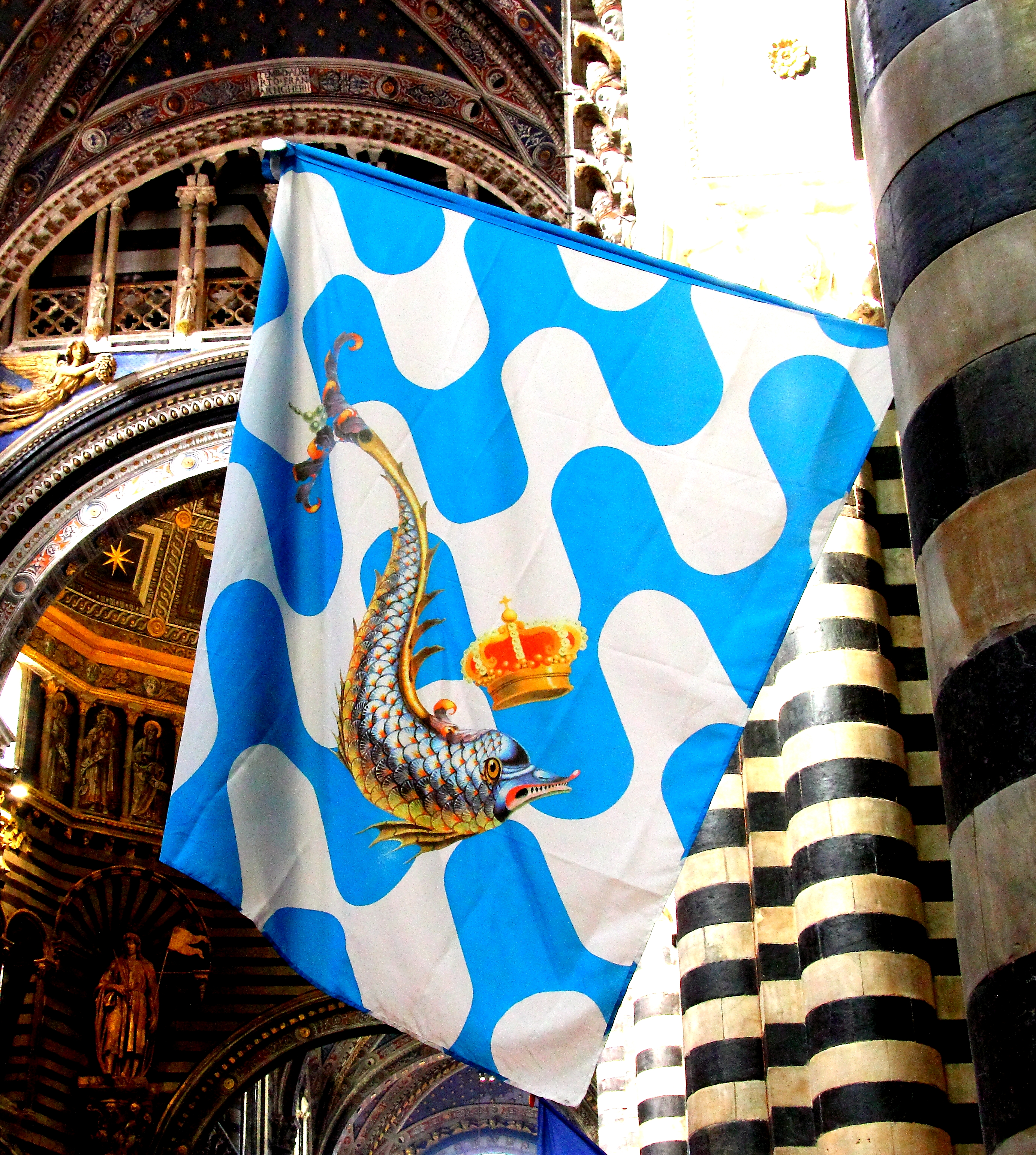 Siena, Italy: Flag of the "Onda" contrada displayed in the city's cathedral